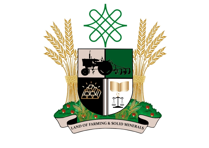 Newly Designed Coat of Arm by Zamfara State Government